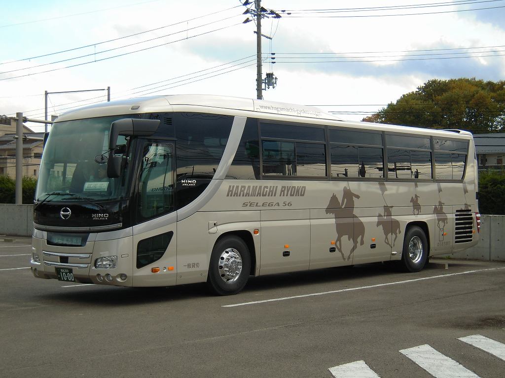 Haramachi Ryoko Hino S'ELEGA (LKG-RU1ESBA)